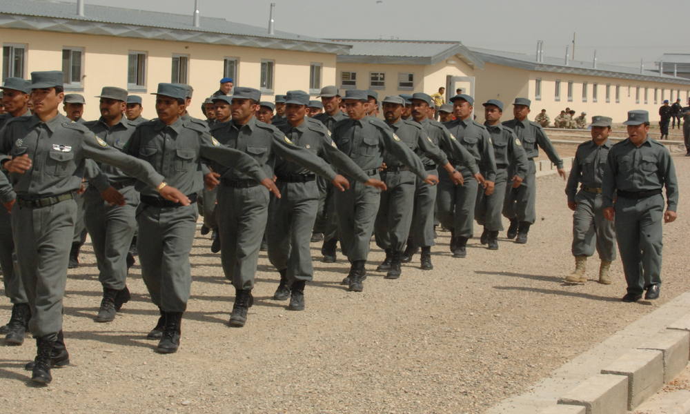 MAZAR-E-SHARIF, Afghanistan (March 25, 2010) - Afghan National Civil Order Police/Afghan Gendarmerie Force Training Center graduates parade in formation honoring Mohammad Atta Noor, Governor of the Province of Balkh where 193 trainees graduated in the center's first enlisted graduation. (Photo by U.S. Air Force Staff Sgt. Jeff Nevison)